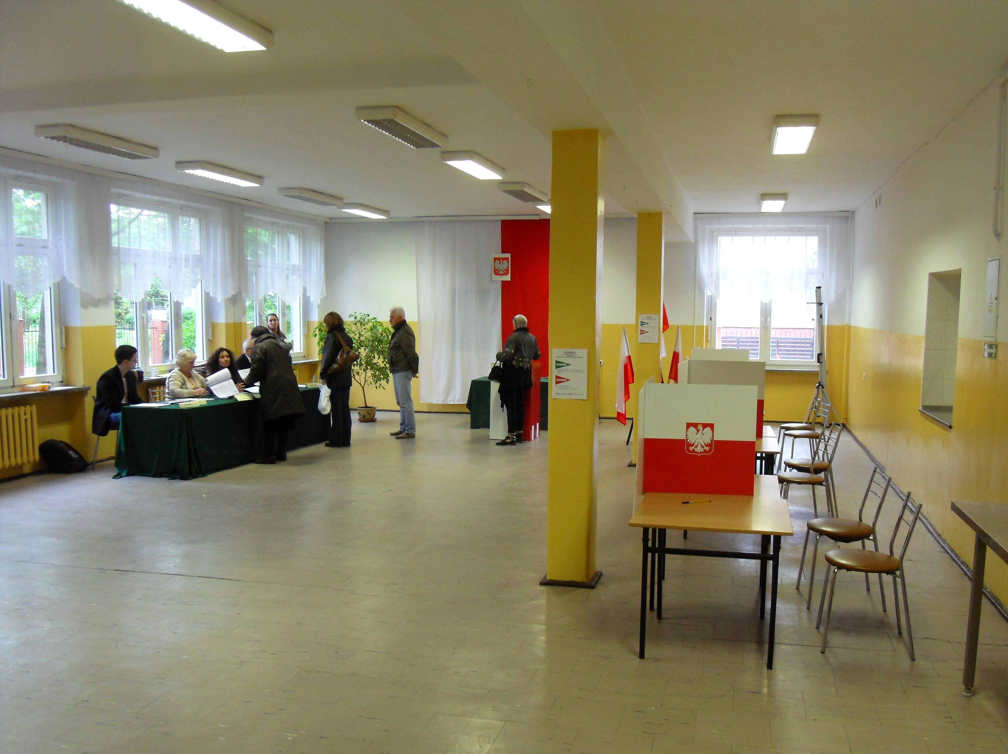 The Polish presidential election (2015) in Gdańsk, the first round of voting.